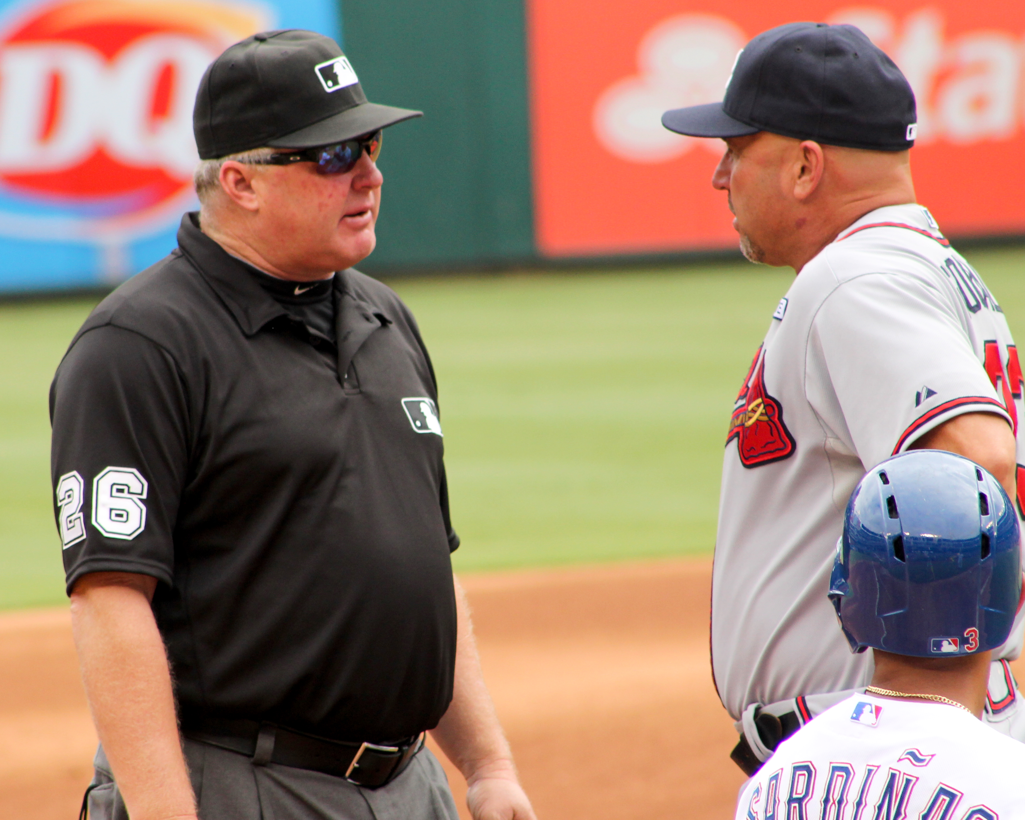 Baseball umpire Bill Miller confers with Atlanta Braves manager Fredi González during a game in Arlington in September 2014.